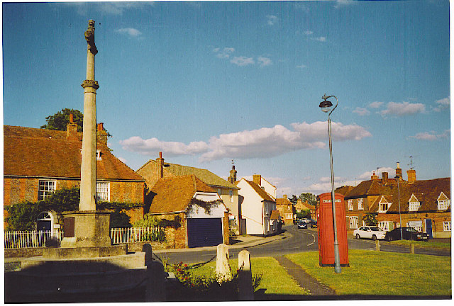 The hilltop village of Brill, Buckinghamshire, England